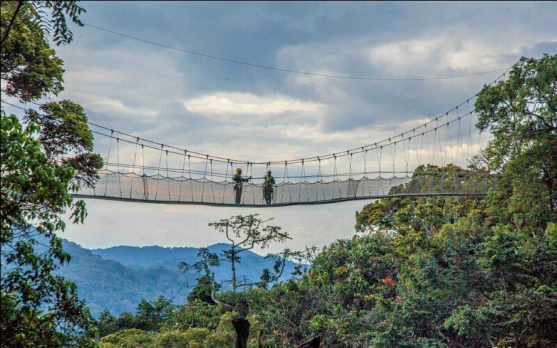 Canopy walk bridge used as a transport to move from one mountain to another in nyungwe national park. This is an image with the theme "Africa on the Move or Transport" from: Rwanda